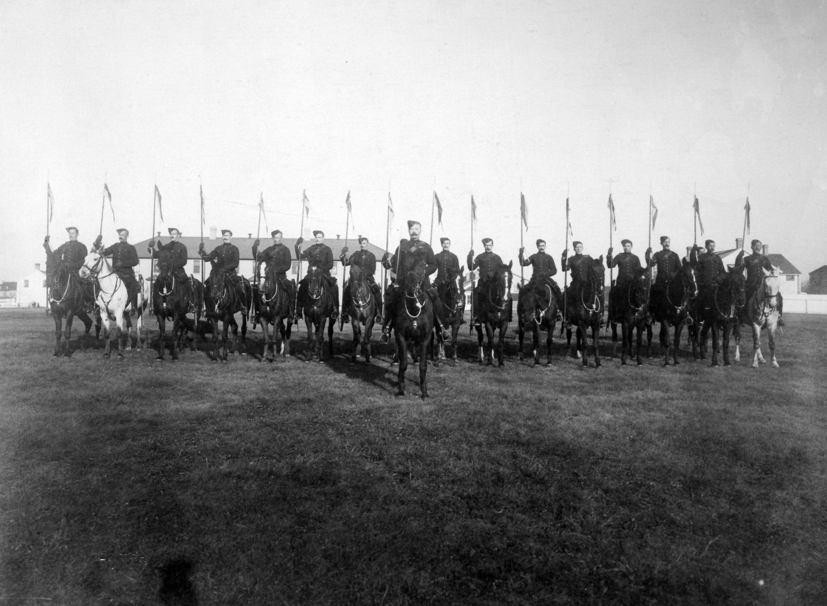 Troop front. Canadian Mounted Rifles with 2nd Contingent, South Africa. No. 15118a, trimmed and balanced